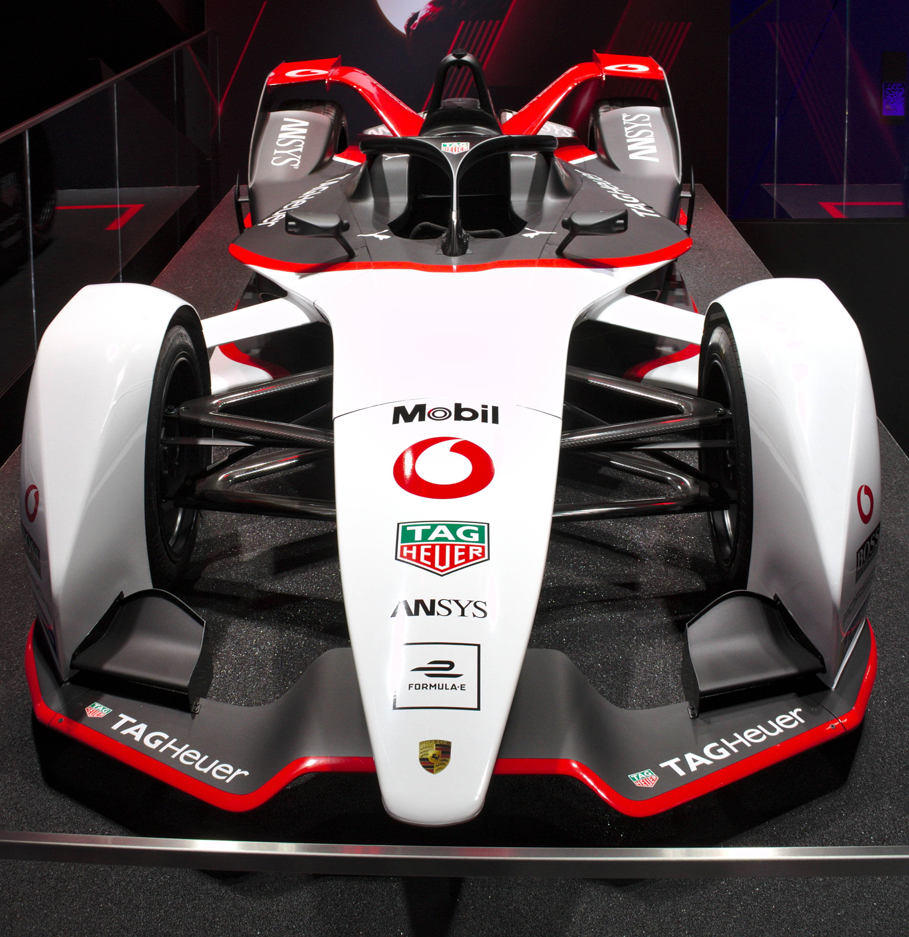 Porsche_Spark_SRT_05e at IAA 2019